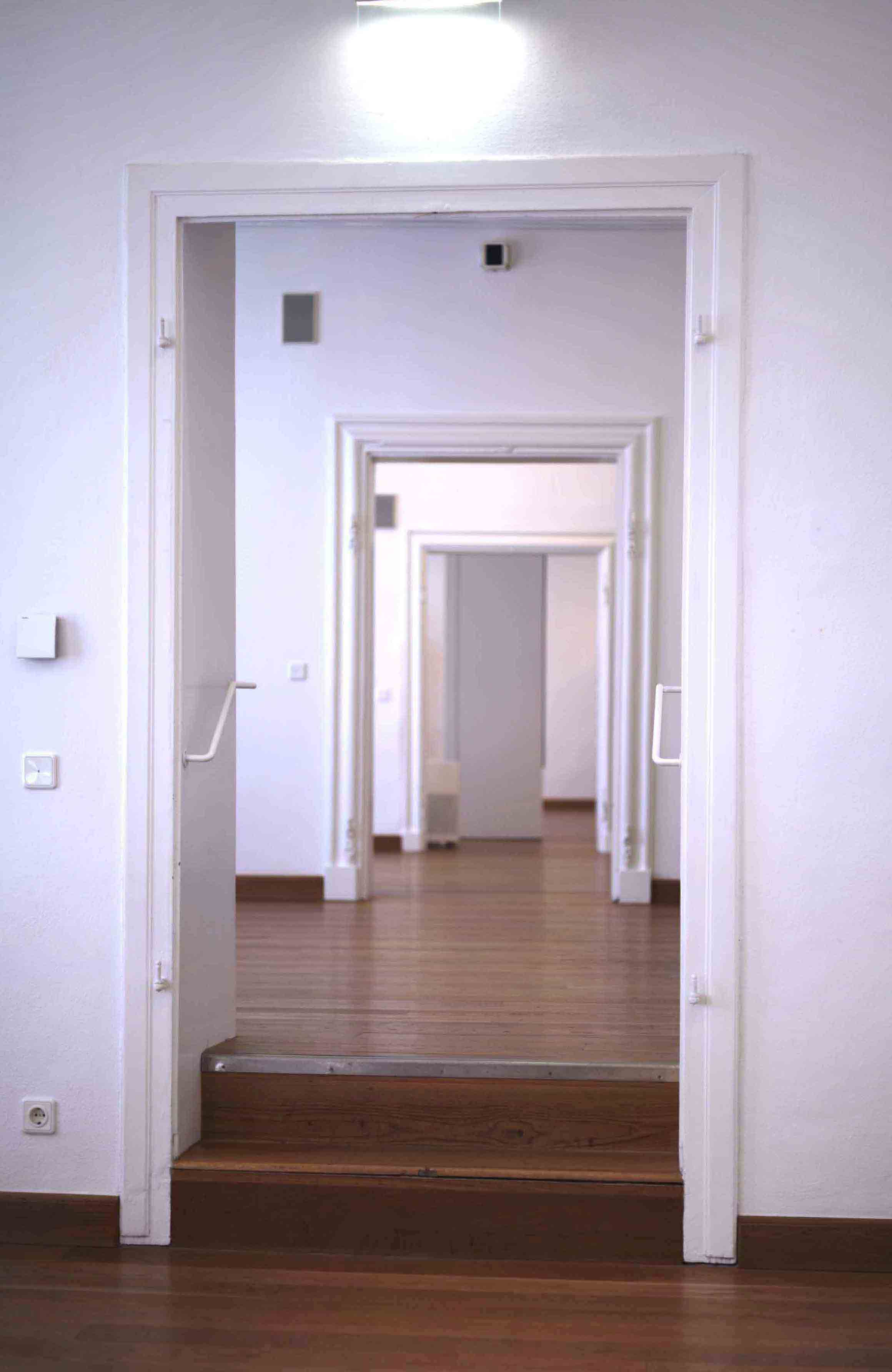 Bayreuth, Maximilianstraße 33, EnfiladeThis is a photograph of an architectural monument.